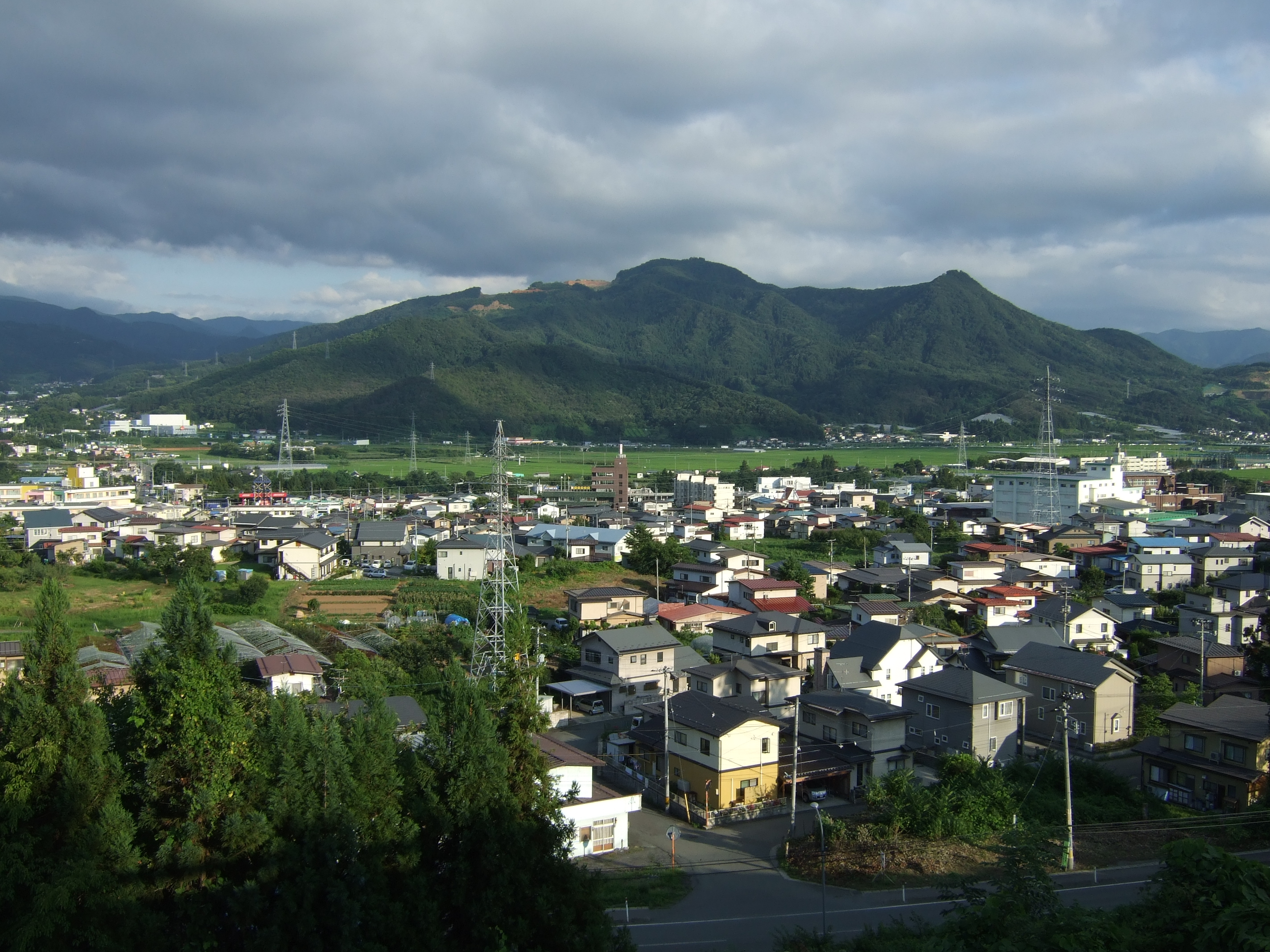 Hayama mountain in Kaminoyama, Yamagata, Japan.